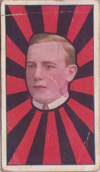 Cigarette card of Ramsay Anderson from the 1911 Sniders & Abrahams series.